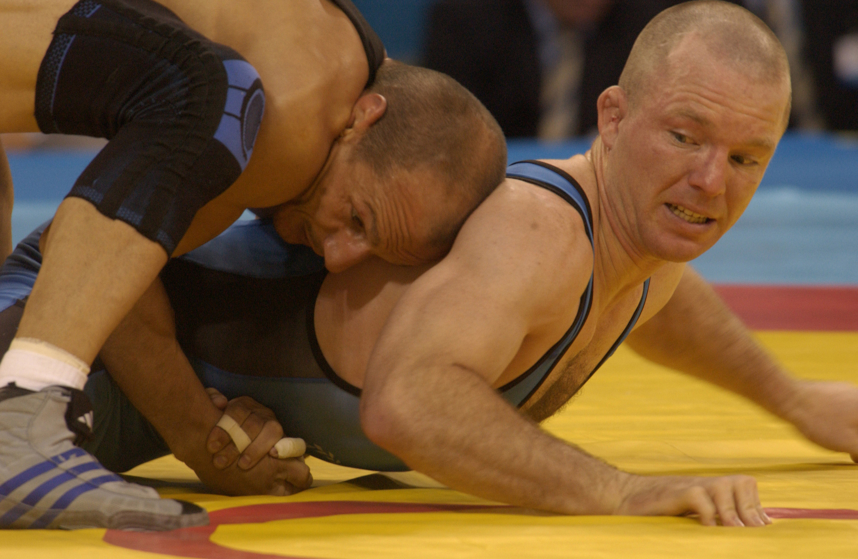 U.S. Army Sgt. Oscar Wood (right) wrestles Jannis Zamanduridis from Germany in the second pool round of the 66kg Greco-Roman wrestling at Ano Liossia Olympic Hall during the 2004 Olympics in Athens, Greece, on Aug. 24, 2004. Wood from Fort Carson, Colo., lost to Zamanduridis 5-2 and did not move past the pool round to qualify for the semi-finals.